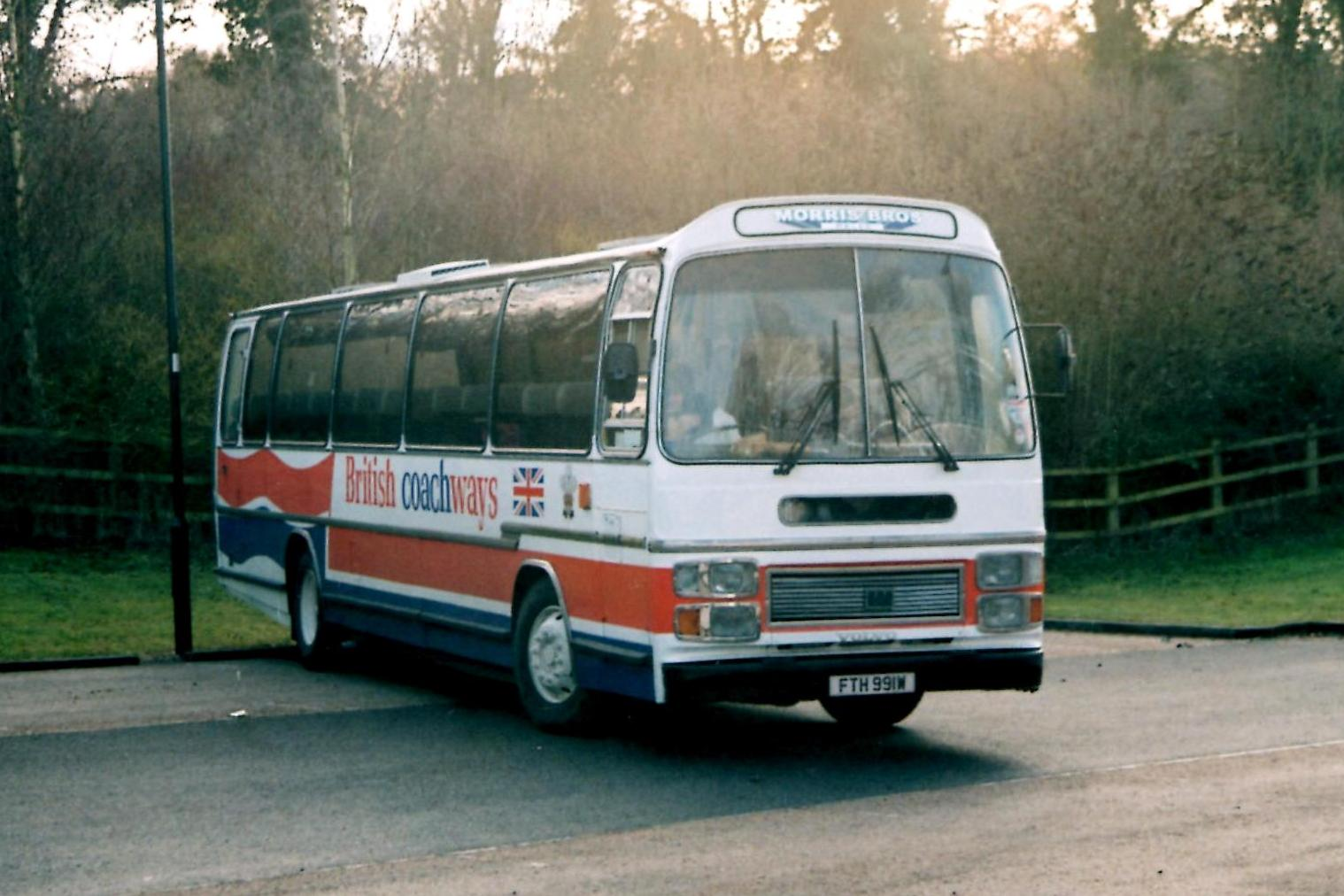 FTH 991W, a Volvo B58 coach with Plaxton bodywork, was new to Morris Bros. of Swansea in June 1981. It is now preserved in the livery of British Coachways, a consortium of independent operators which ran express coach routes between 1980 and 1982, and was pictured at the Winchester running day in January 2011.